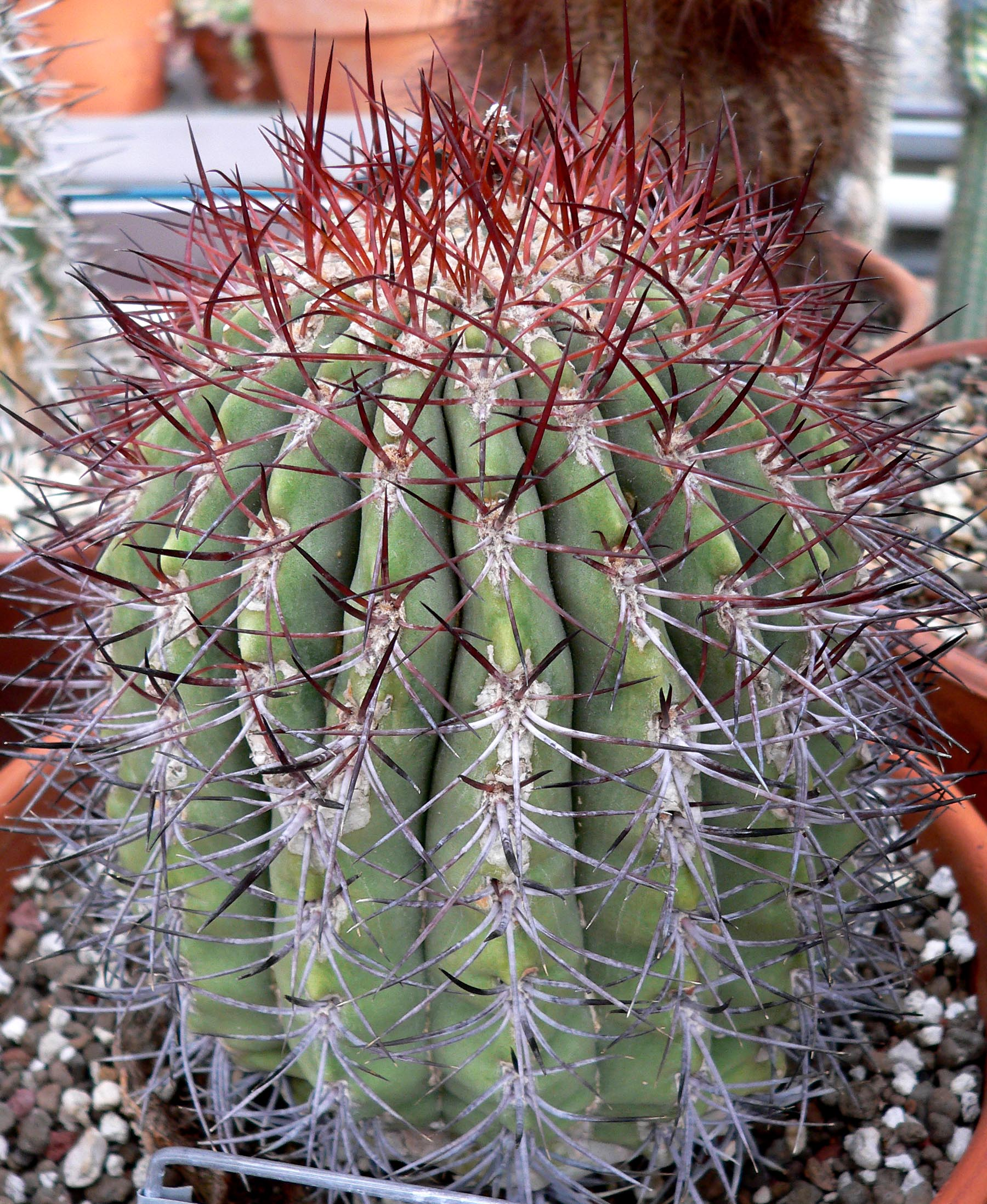 Photo of Denmoza rhodacantha at the University of California Botanical Garden